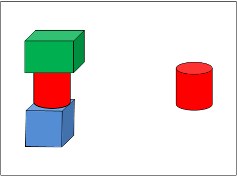 A red cylinder is freed from its neighbours.